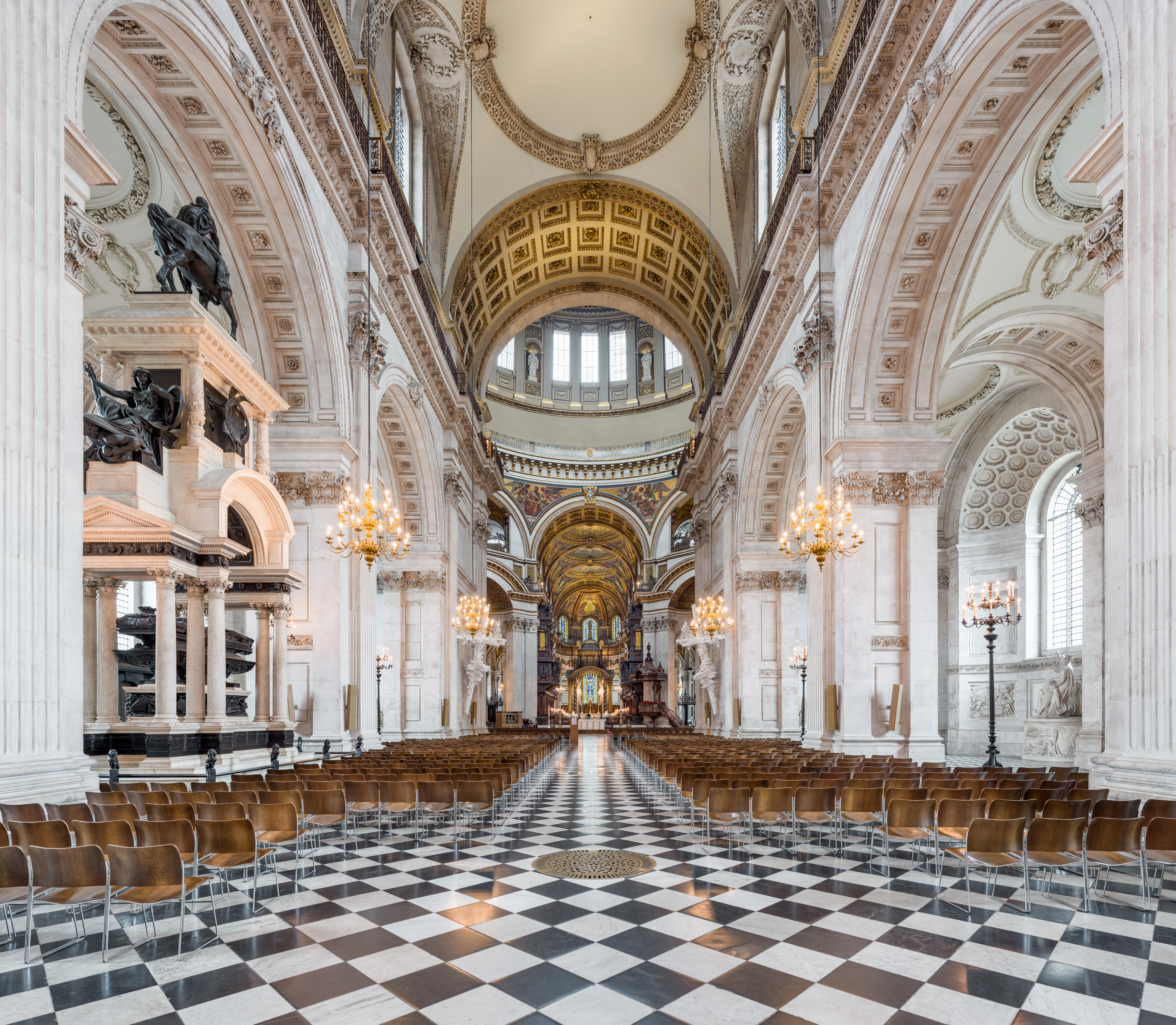 St Paul's Cathedral nave looking east towards the central dome and choir.